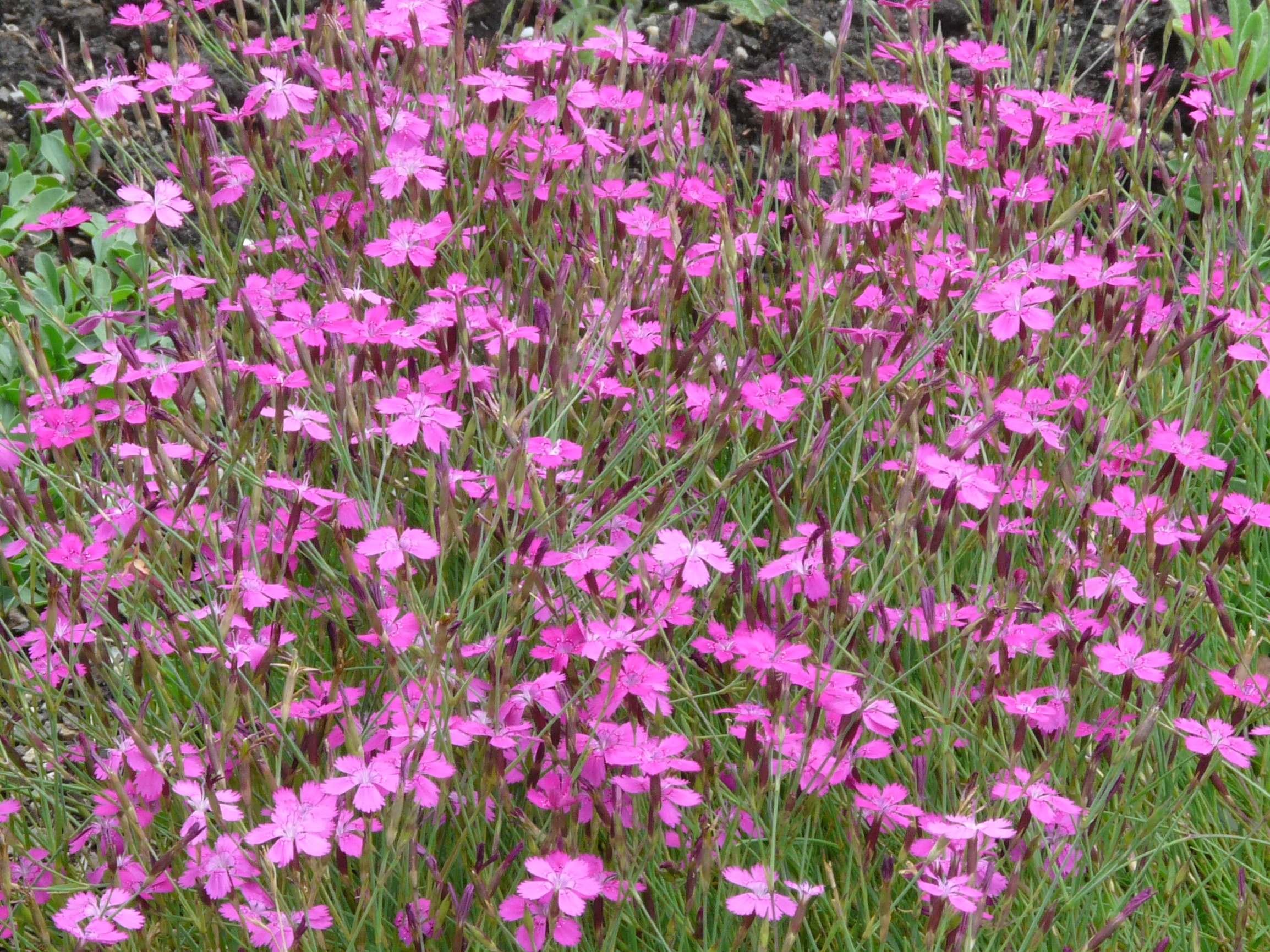 Dianthus deltoides (Botanical Gardens Utrecht)